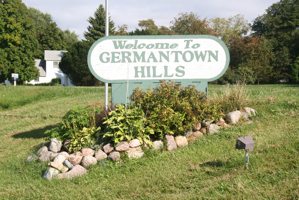 The welcome sign into Germantown Hills, Illinois on Illinois State Route 116. South side of road coming from the west.